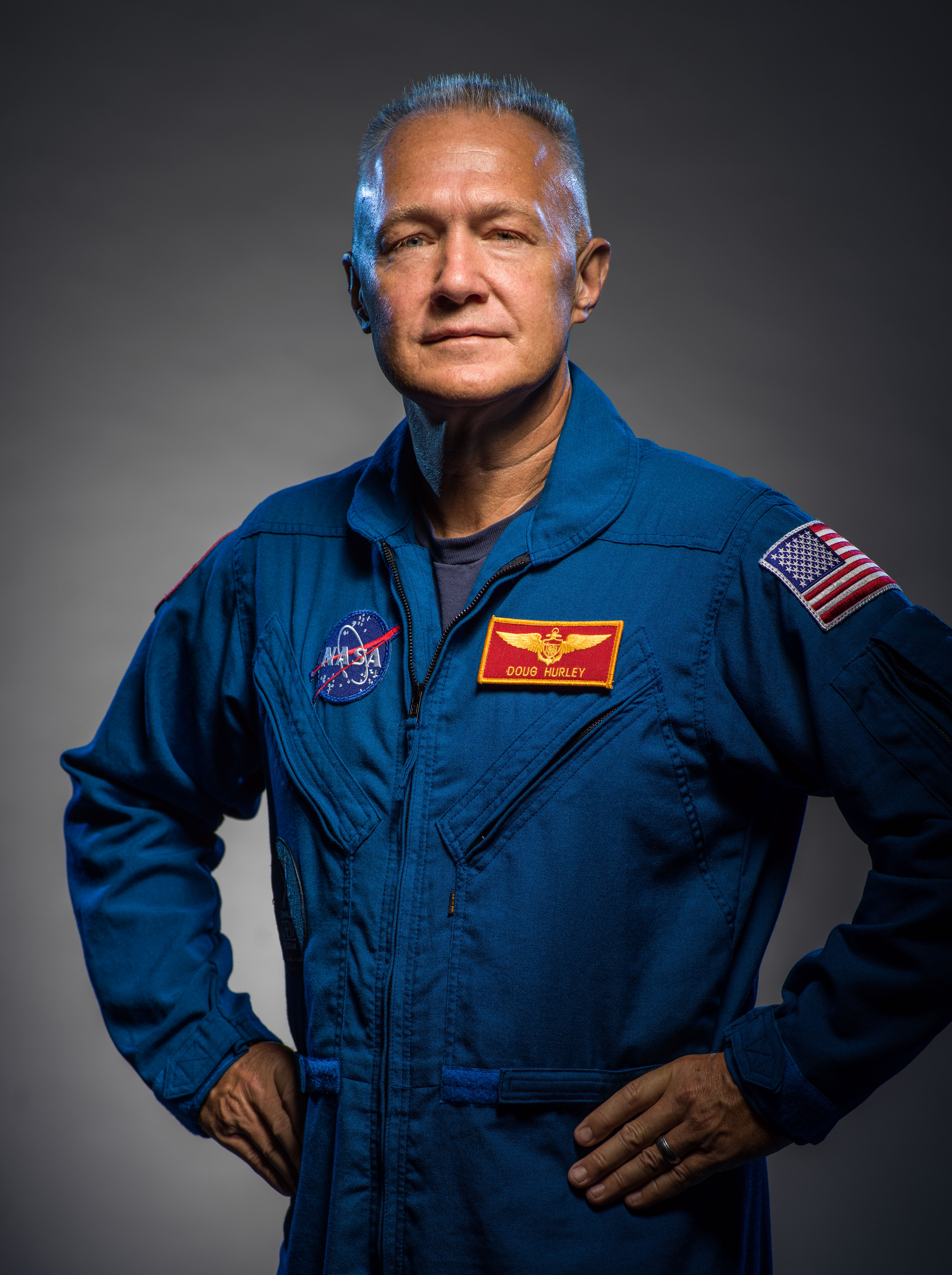 NASA Astronaut Doug Hurley has been assigned to the first flight of SpaceX’s Crew Dragon.